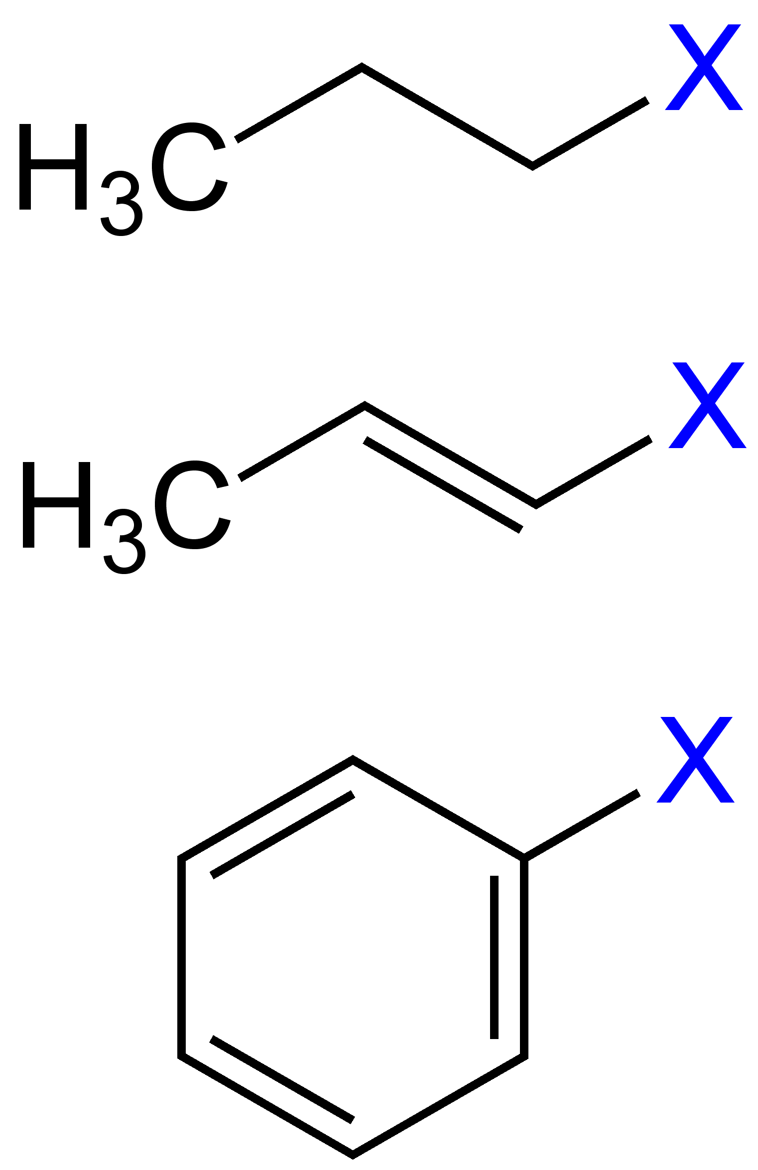 Halocarbon_General_Formulae